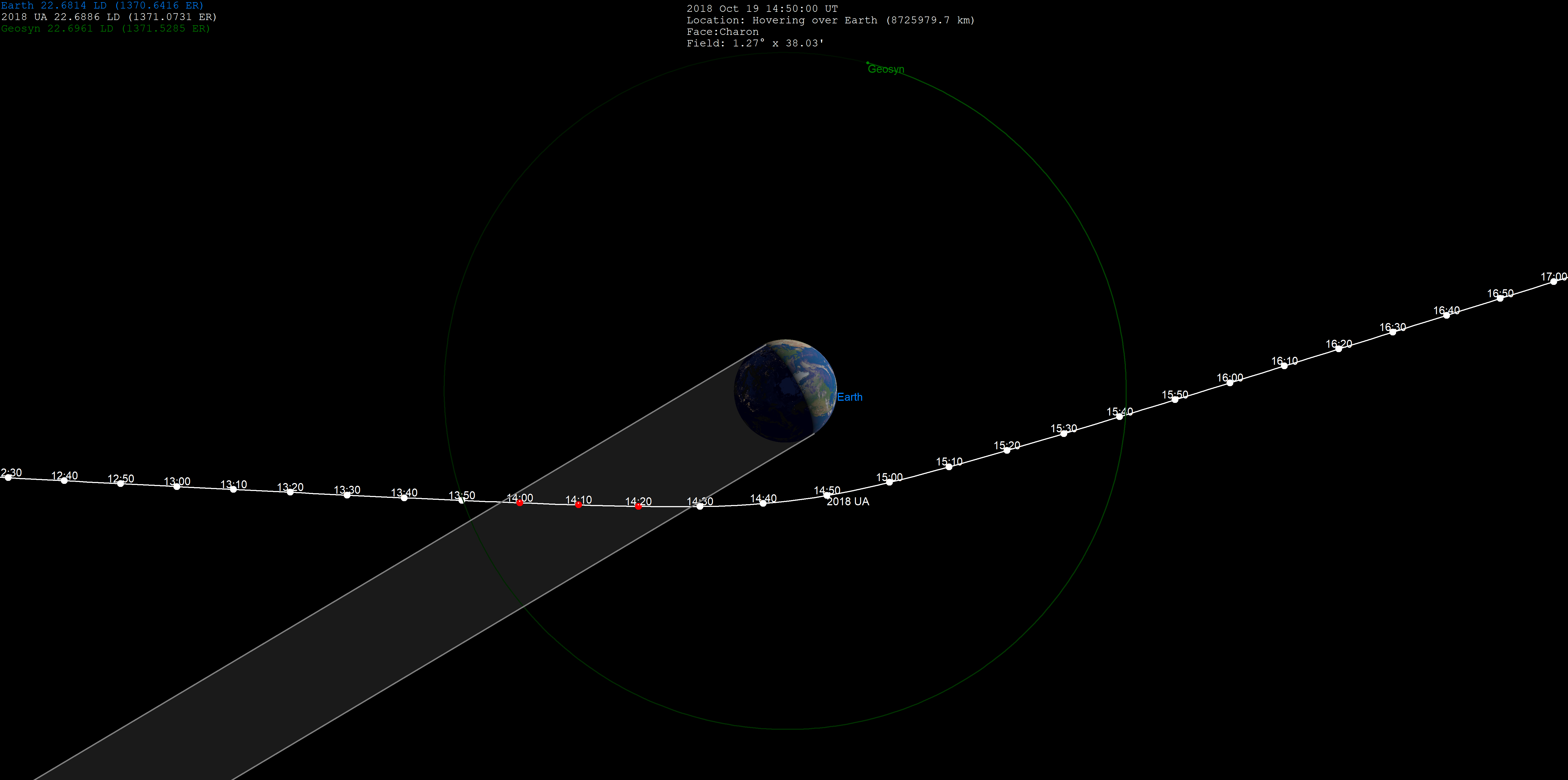 2018 UA hyperbolic path and fly by near earth on 10/20/18